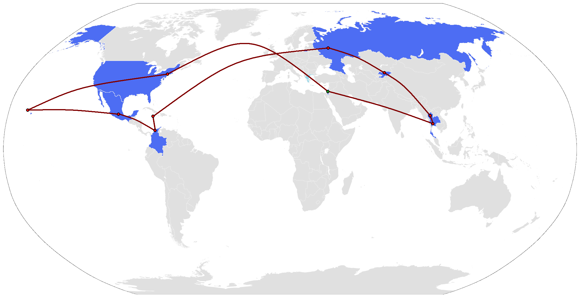 The route map of HaMerotz LaMillion 6